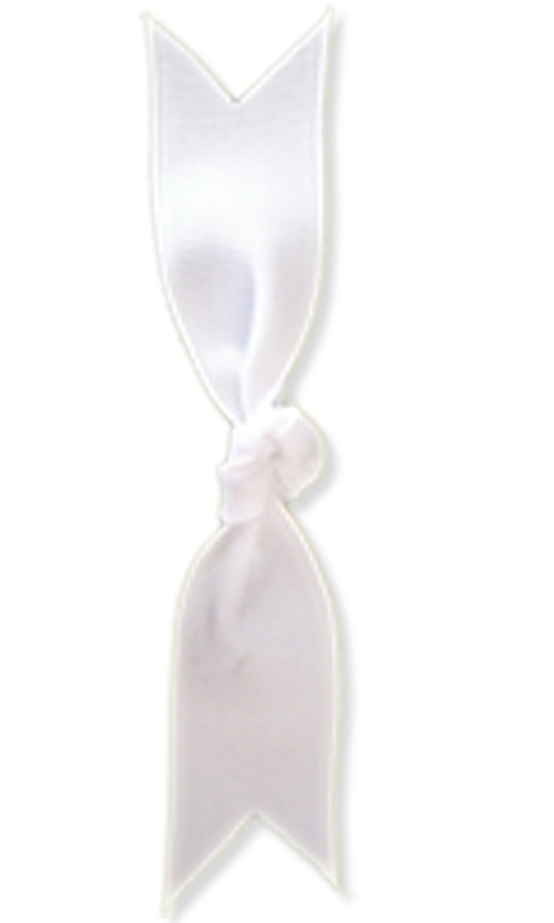 The White Knot symbol for Marriage Equality